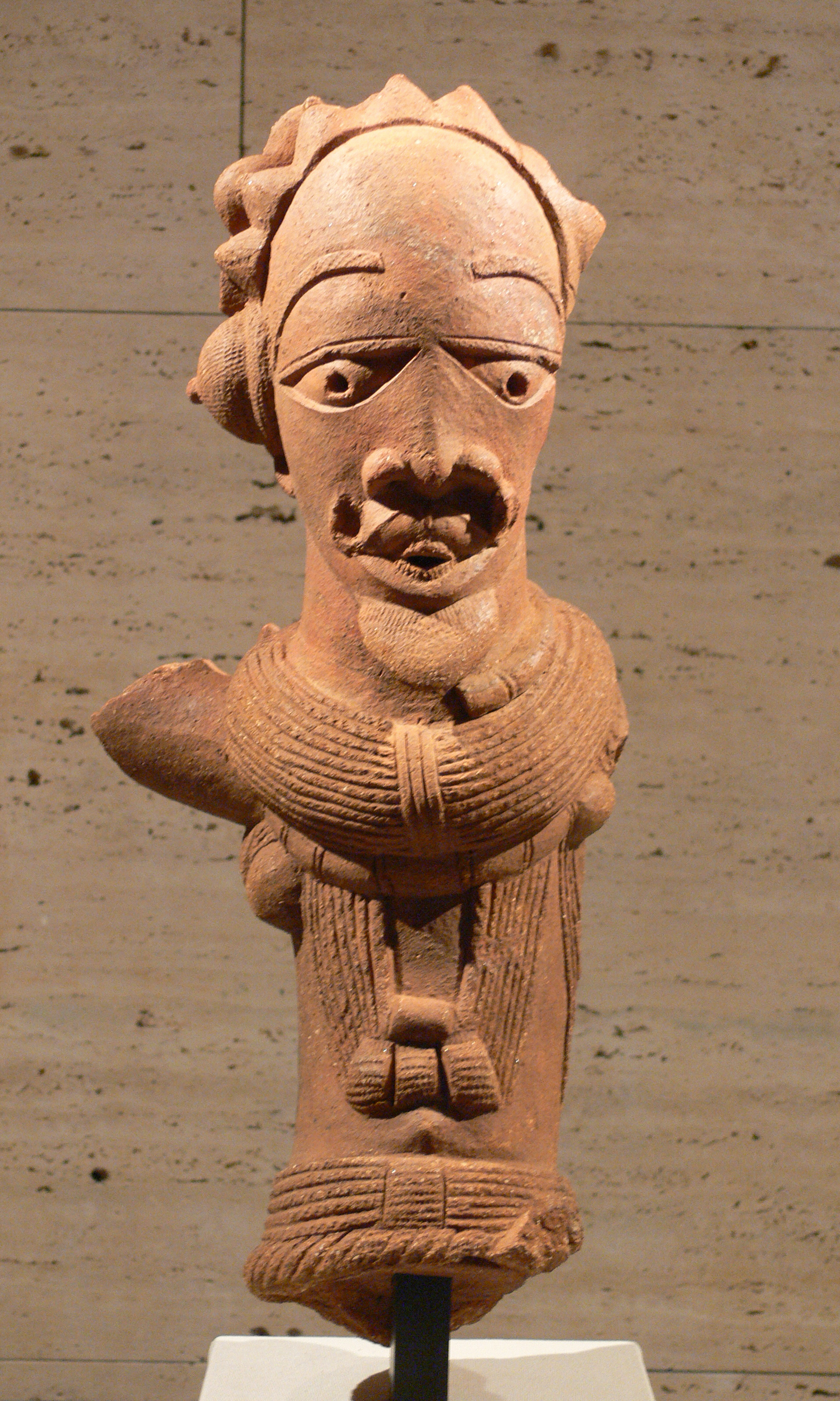 Africa, Northern Nigeria, Nok culture (c. 500 B.C.–A.D. 500)